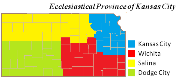 Ecclesiastical Province of Kansas City in the Catholic Church encompasses the entire state of Kansas, USA.